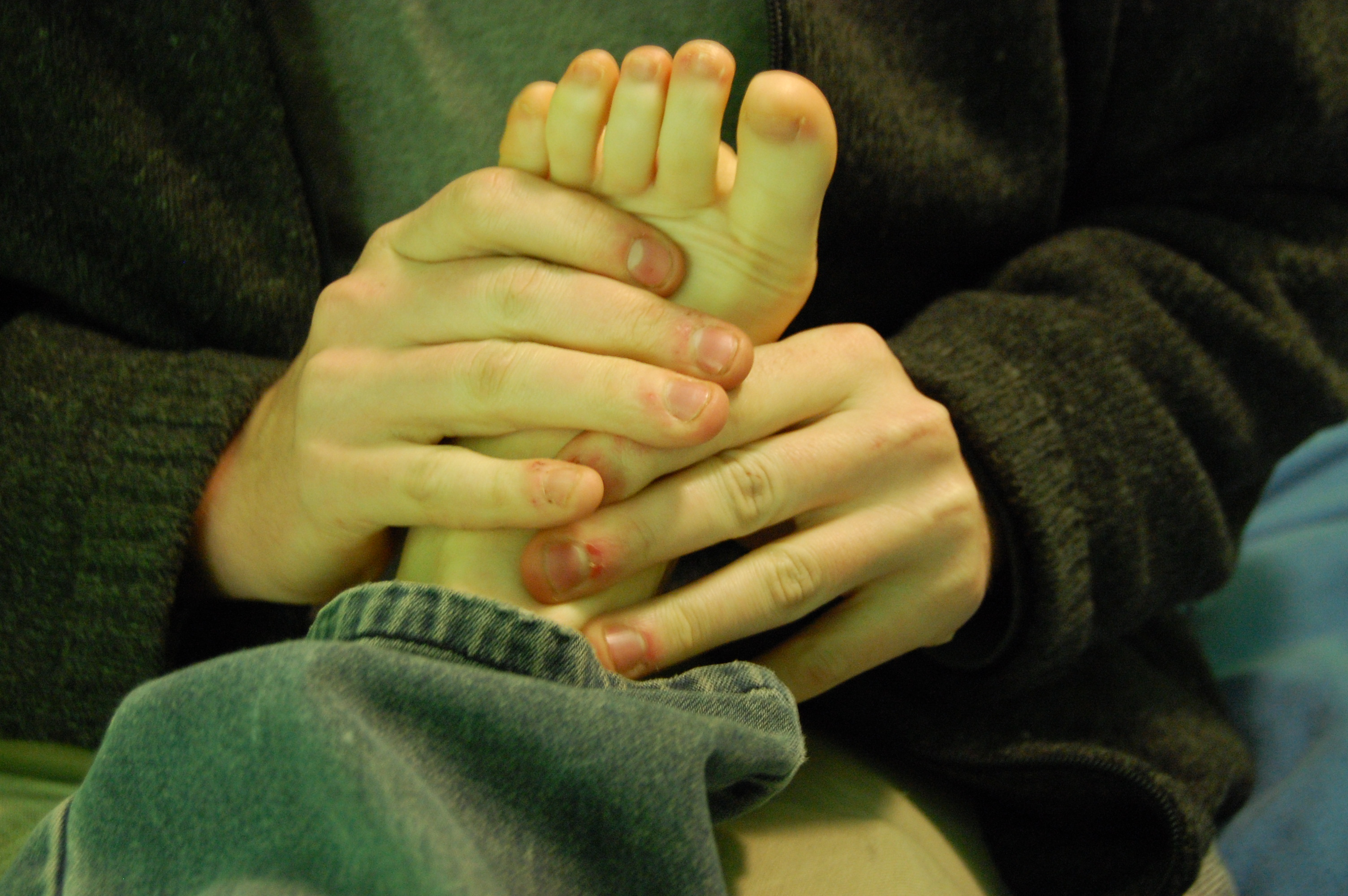 lest you think this is a sweet gesture, there was some knuckle-cracking afterwards. OW.